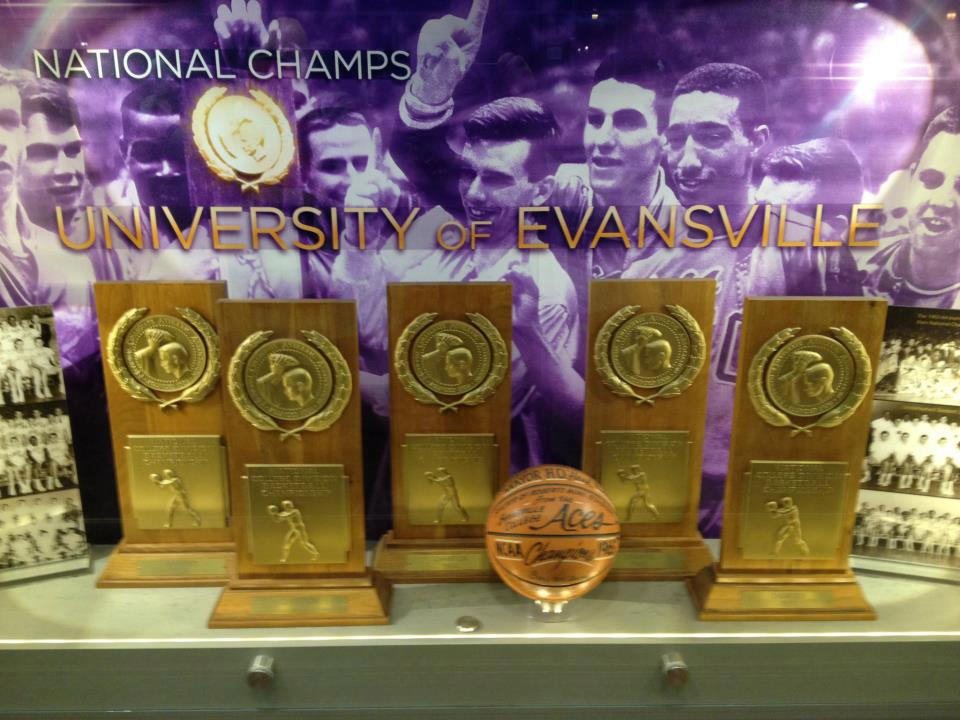 Photo of the UE memorial case at the Ford Center in Evansville, Indiana